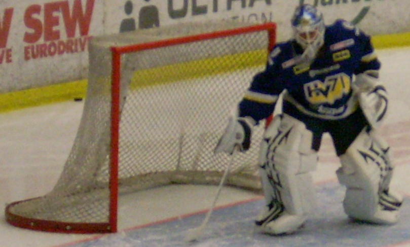 Stefan Liv warming up before game versus Luleå HF